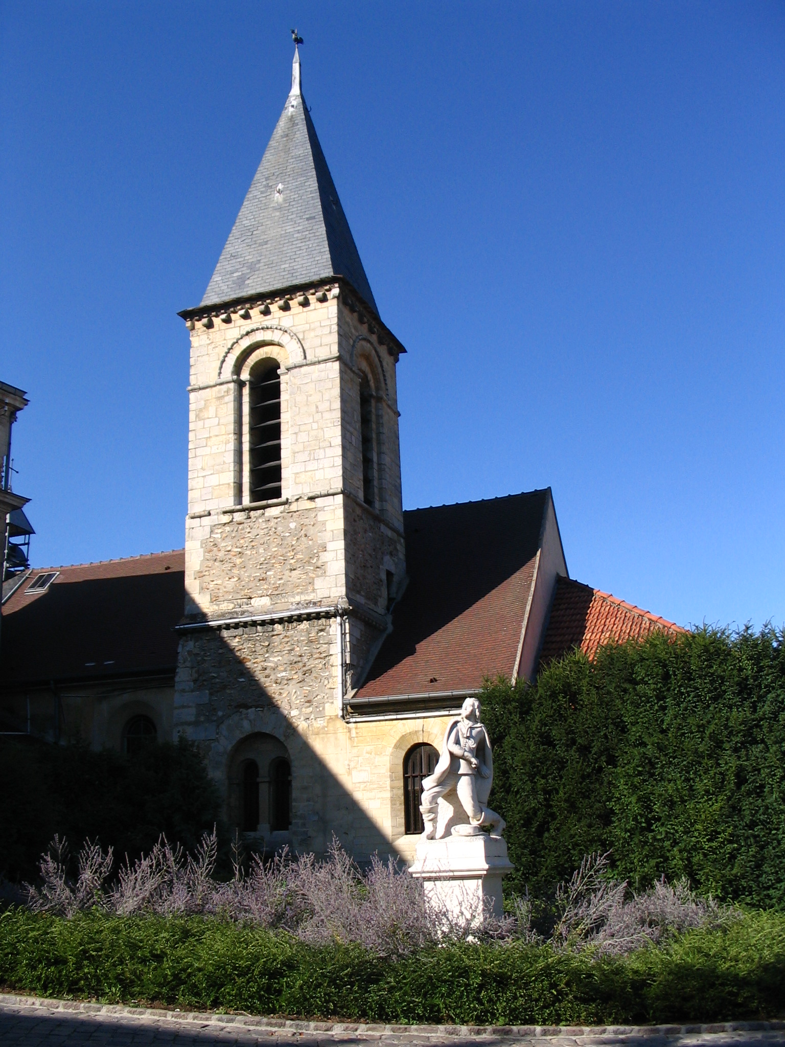 The church of Le Plessis-Robinson, Hauts-de-Seine, France.